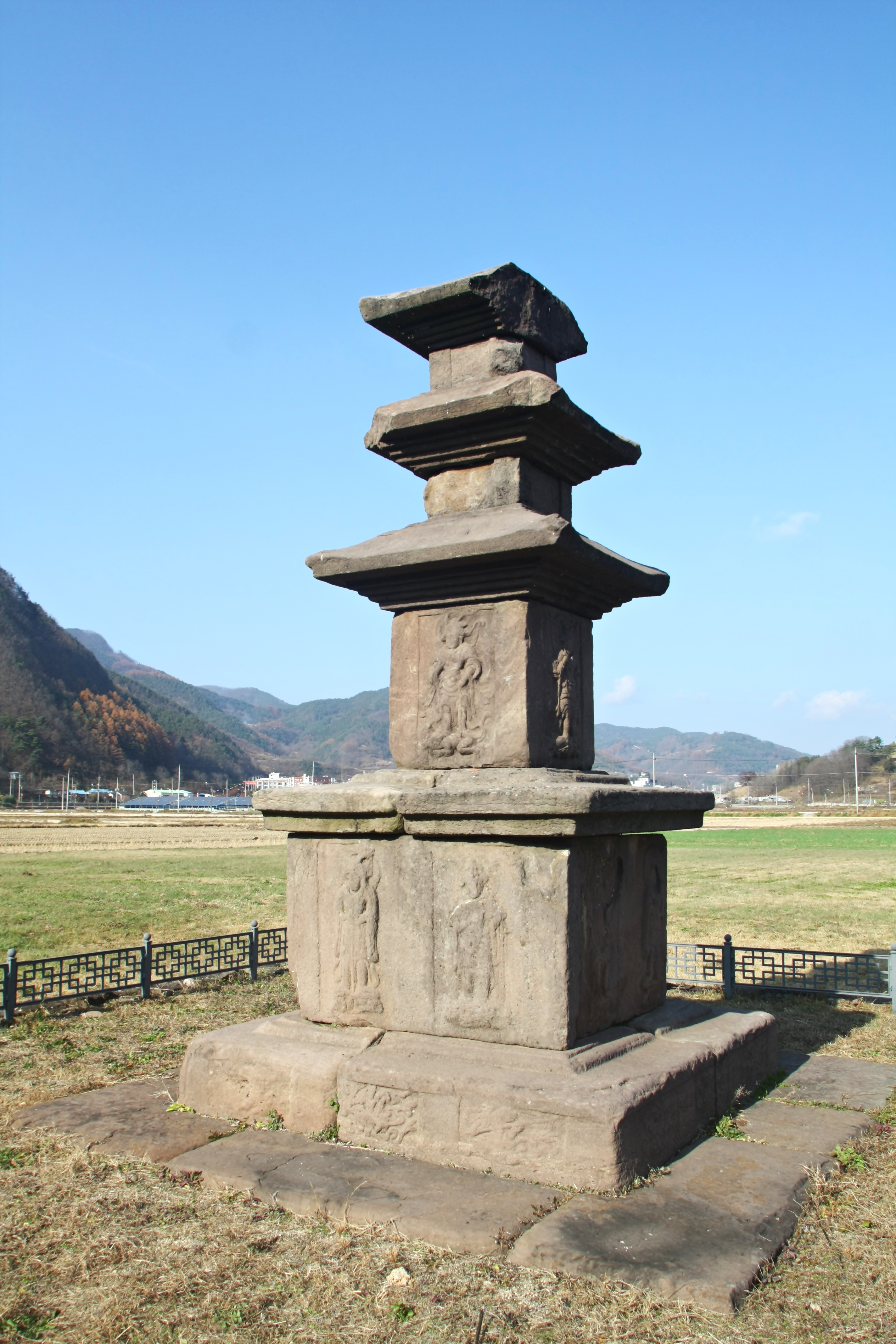 Three-story Stone Pagoda at Hyeon-ri, Yeongyang in South Korea